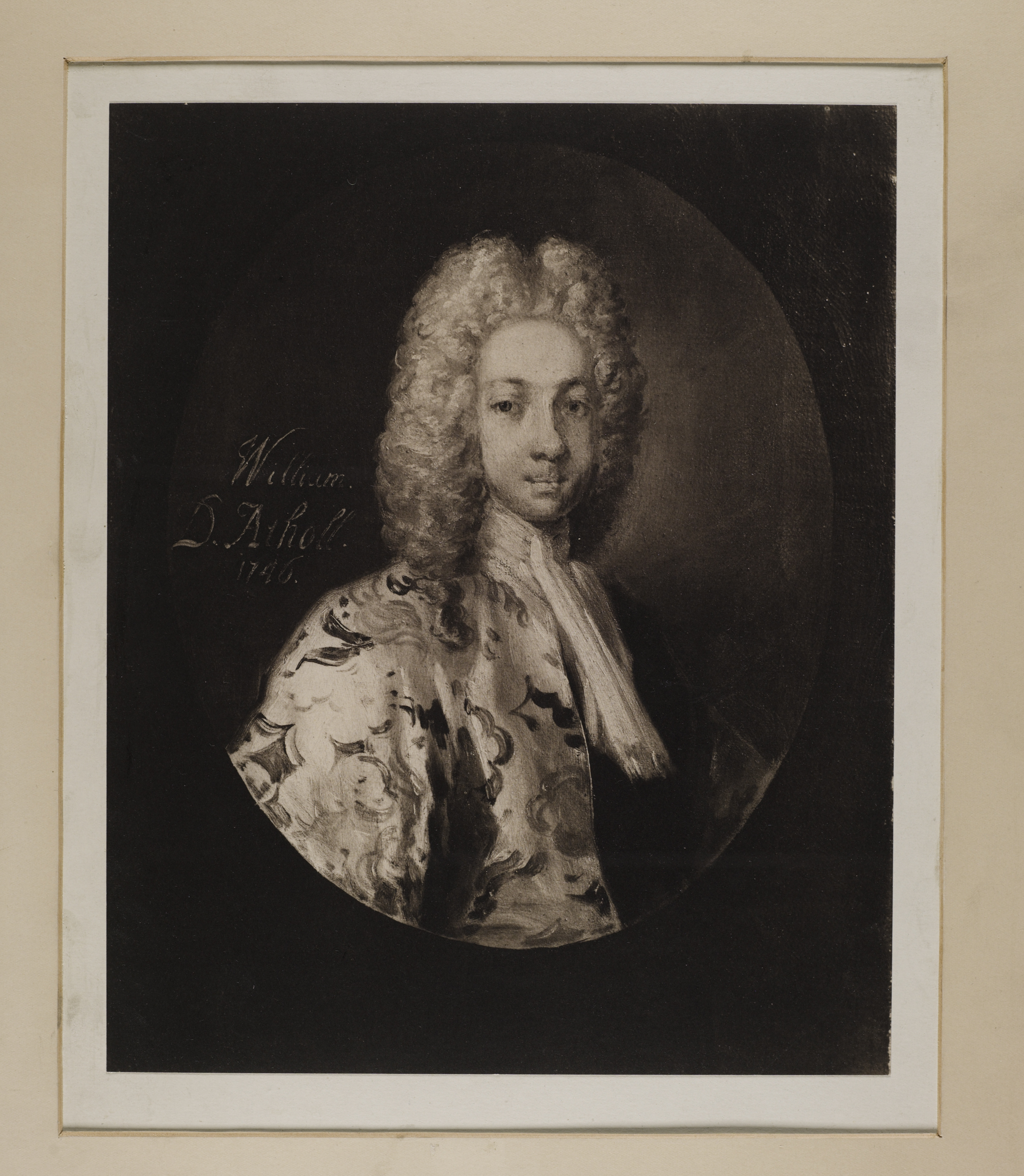 William, Duke of Atholl, actually William Murray, Marquis of Tullibardine (d.1746) Portrait with text "William, D.Atholl. 1746" Oval, man dressed in fancy white coat and white neck tie, with white wig